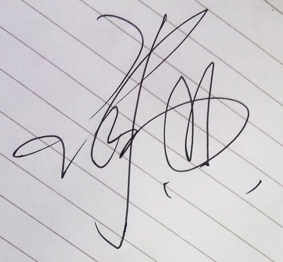 This is Tse Yin's signature.